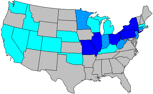 Summary of party change of U.S. house seats in the 1948 House election. Stripes indicate a tie between the gains of two or more parties. Legend: 6+ Democratic seat pickup 3-5 Democratic seat pickup 1-2 Democratic seat pickup 1-2 Republican seat pickup 3-5 Republican seat pickup 6+ Republican seat pickup Note: years ending in 2 may have inconsistent results due to redistricting.